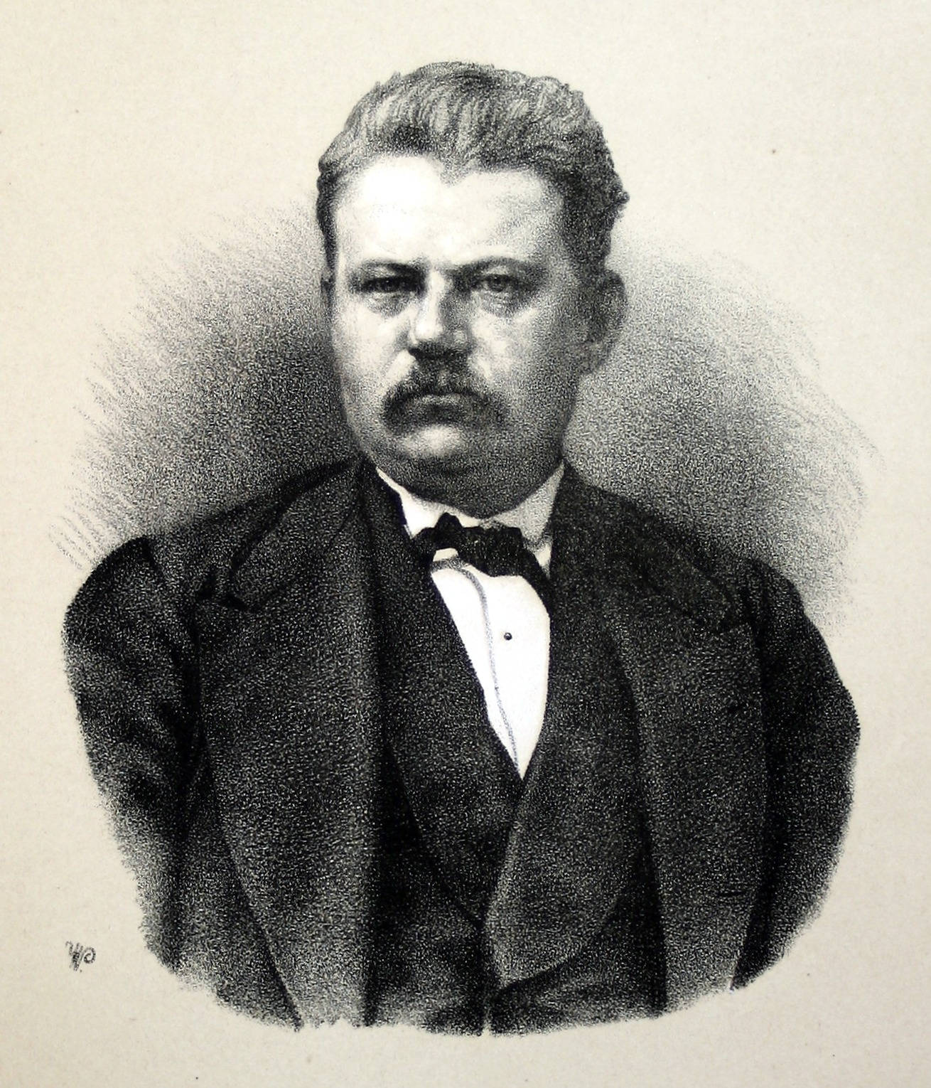 Portrait of Josua Hezekiel Kjellgren (here called Josua Håkan) from the book "Svenska industriens män" (1875)